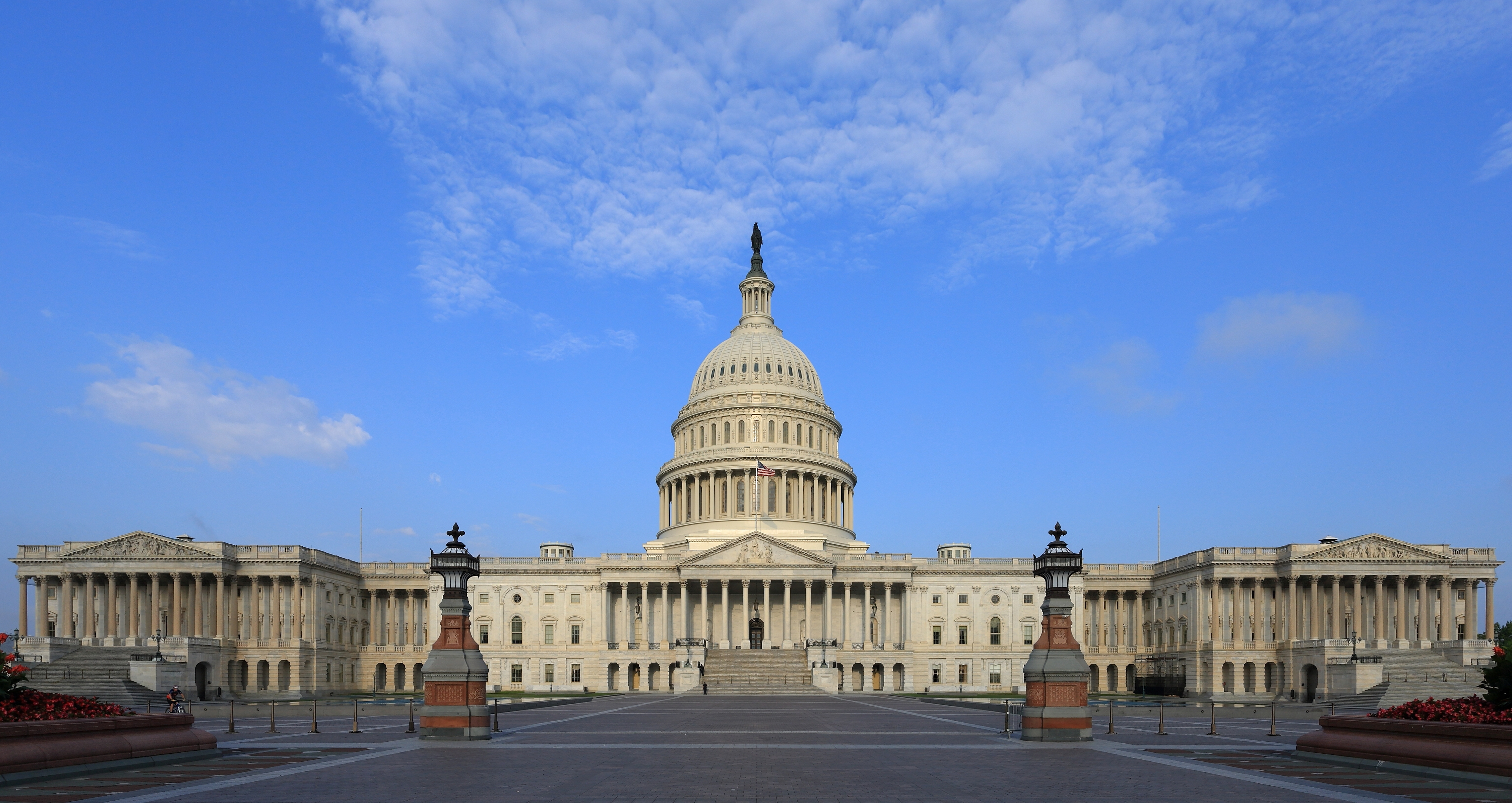 US Capitol east front